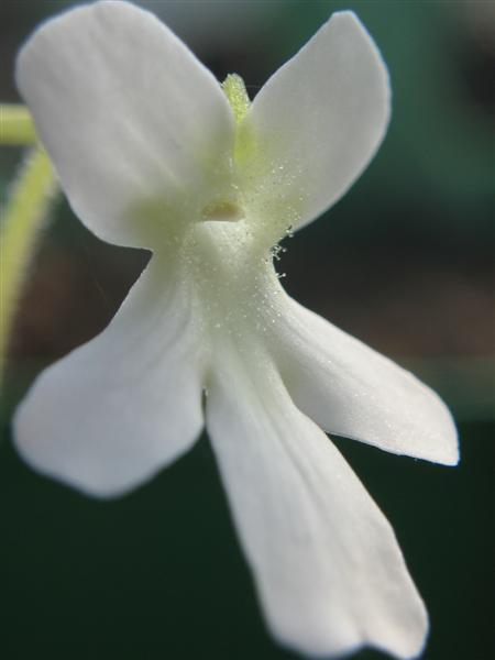 Pinguicula moranensis white flower "Molango"